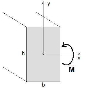 Bending moment acting on rectangular section